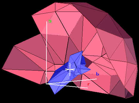 Image of the Primatte polyhedral algorithm